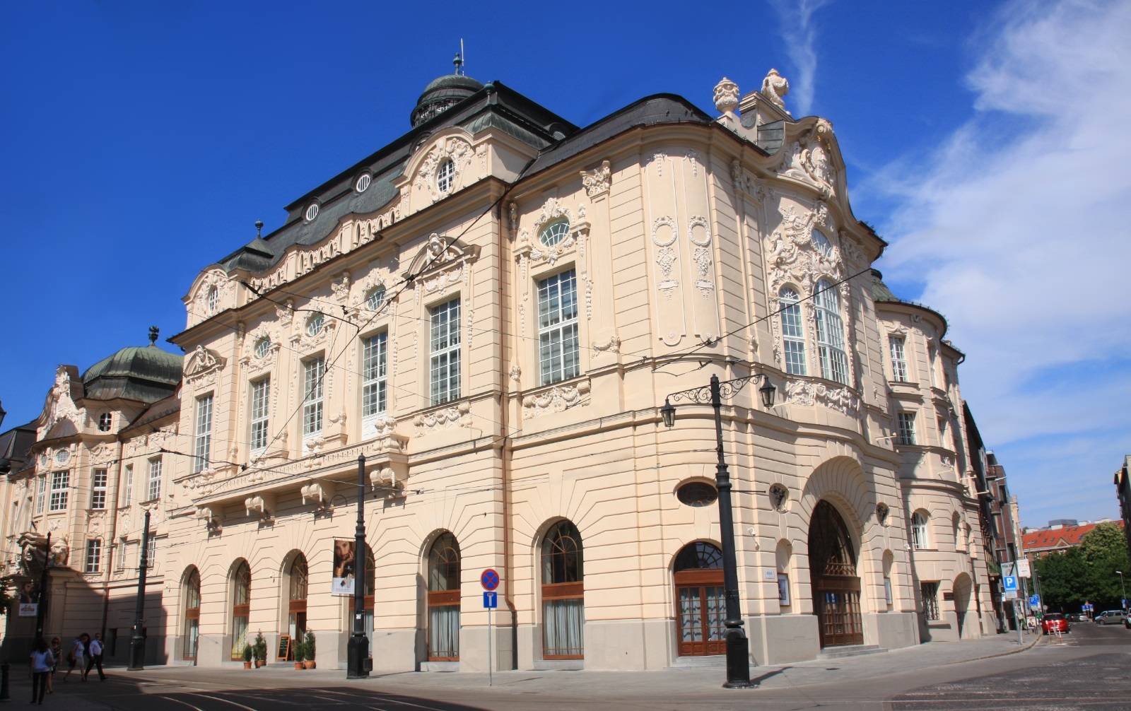 Reduta - Slovak Philharmonic (National Philharmonic)